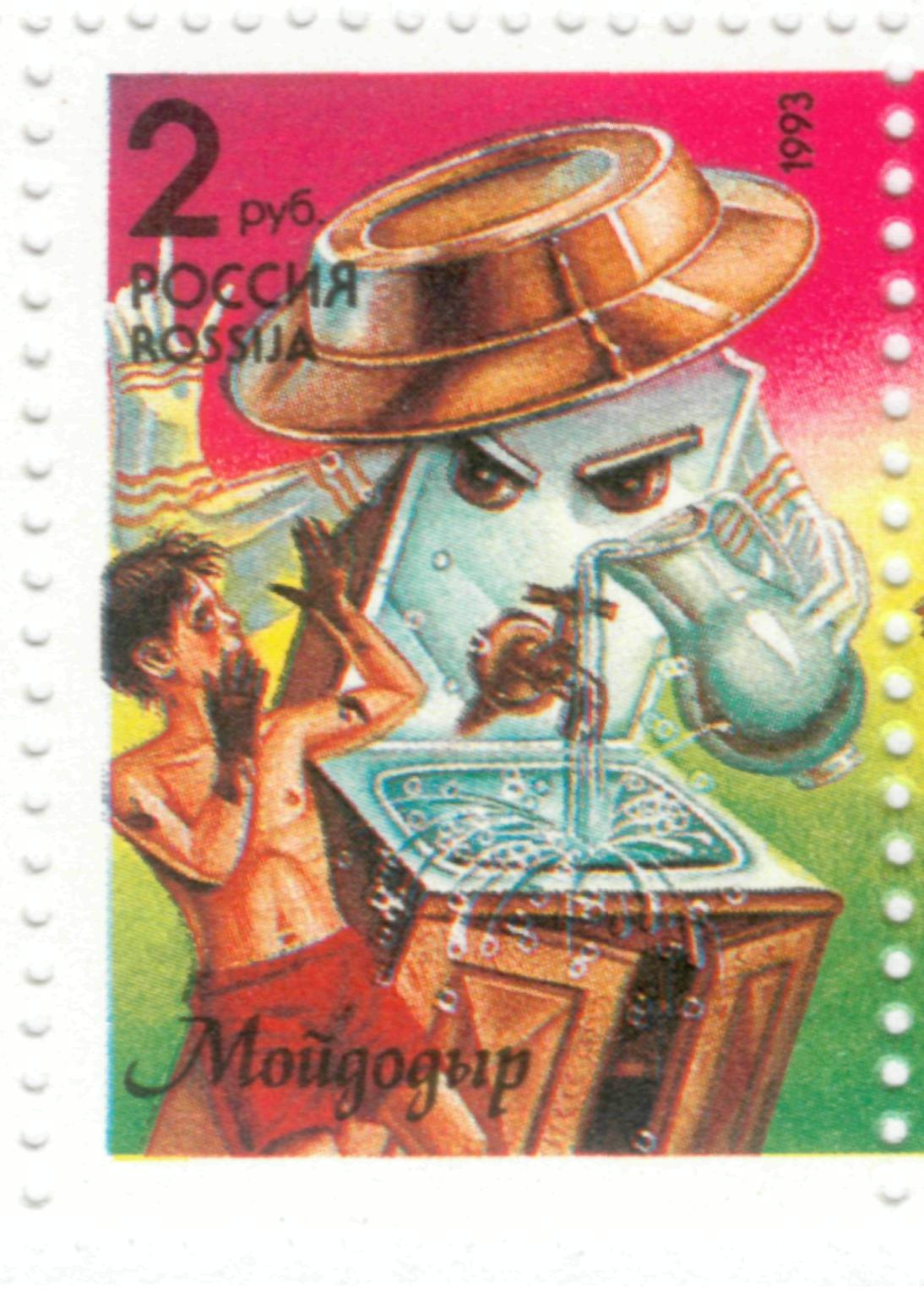 Postage stamp, Moidodyr. From a strip of 5 postage stamps, Tales. Russia. 1993.